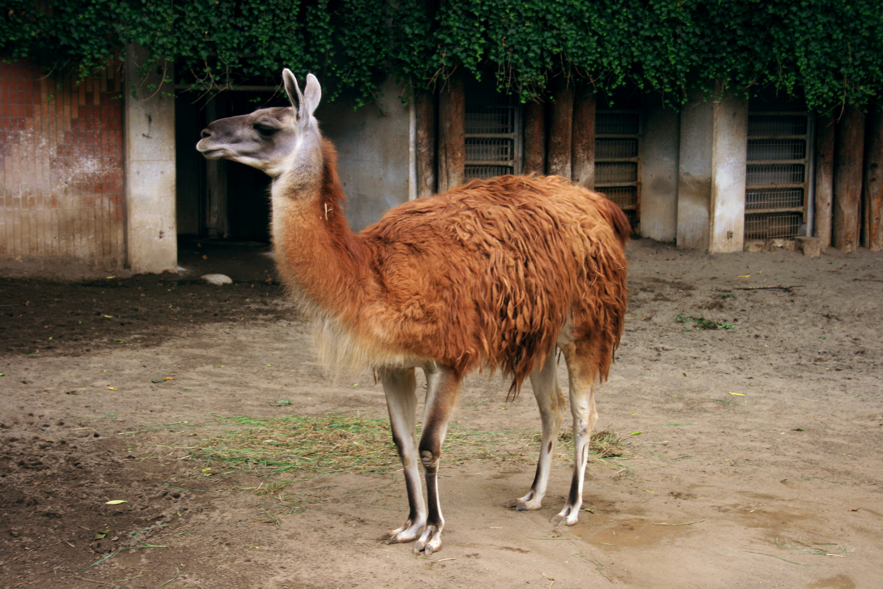 Llama at Ueno Zoo (2007)